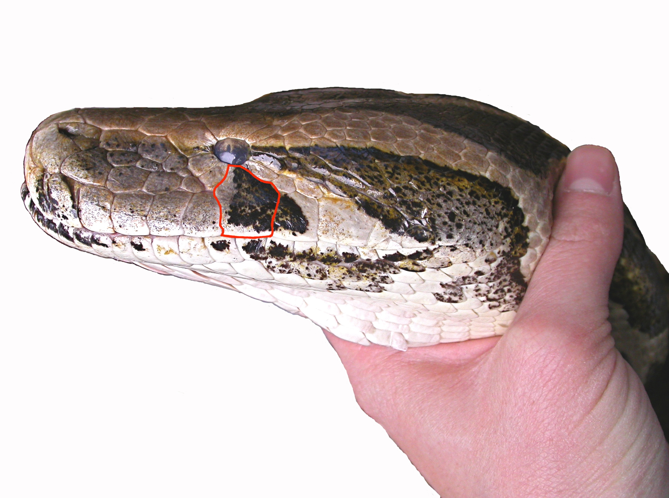 Face of an adult Light Phase Asian Rock Python (Python molurus molurus) This picture shows the head scale characteristic of this subspecies: The 6th or 7th Supralabial-Scale reaches the lower edge of the eye. (This animal lives in captivity) Inspirated through: Jerry G. Walls: "The Living Pythons";T. F. H. Publications, 1998: S. 131-142,142-146, 159-166,166-171; ISBN 0-7938-0467-1